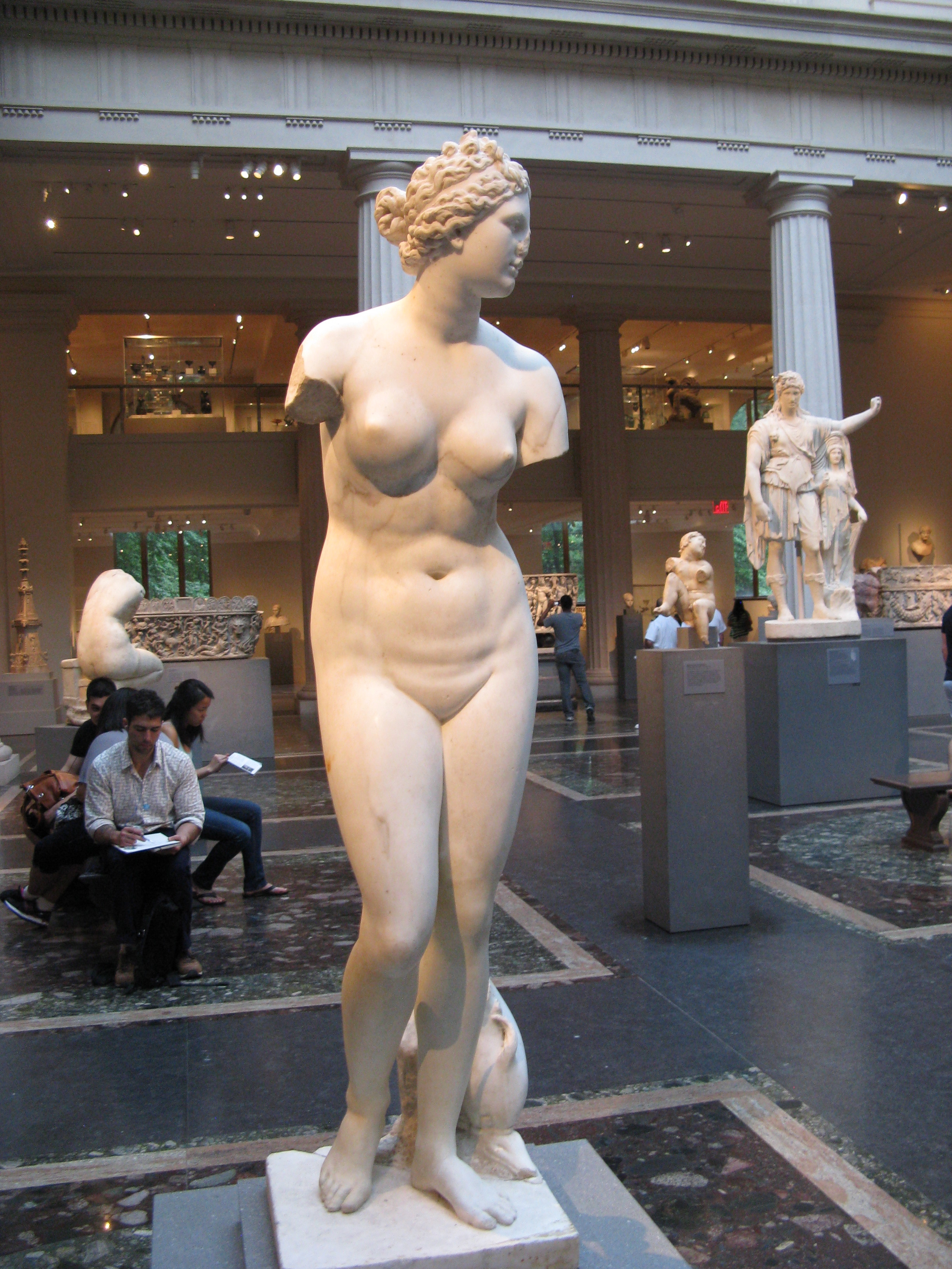 statue of Aphrodite, 1st or 2nd century A.D. Roman copy of a Greek statue of the 3rd or 2nd century B.C. Marble, at Metropolitan Museum of Art